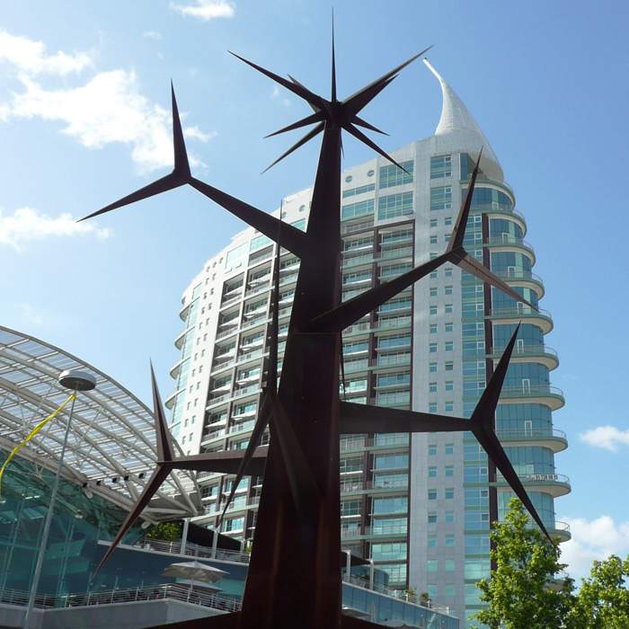 The modern art statue at the front of the Vasco da Gamma Shopping Centre in Expo 98 Park(Parque das Nacoes) Lisbon